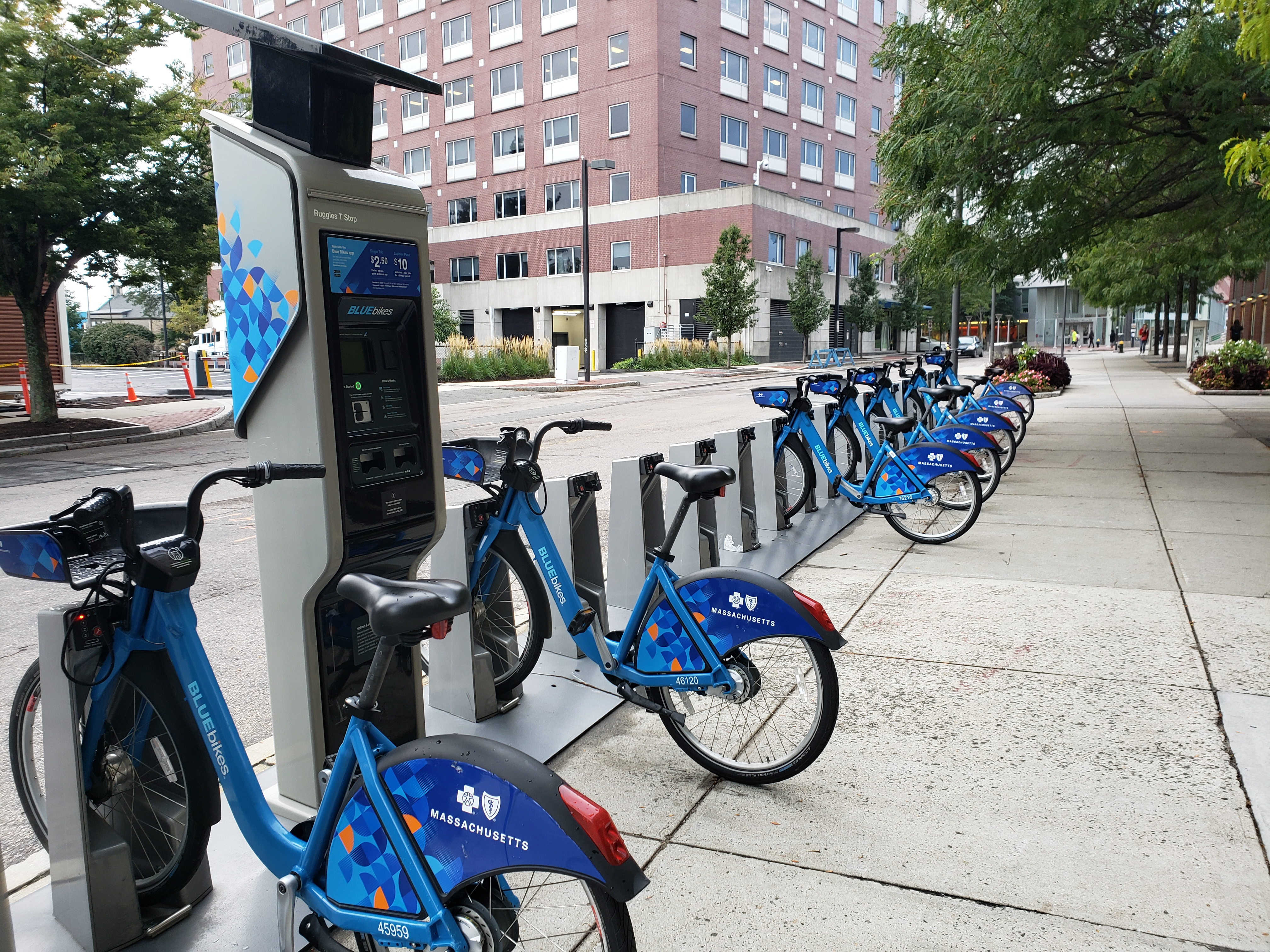 Bluebikes located at the Ruggles Bluebikes station in Boston, MA.